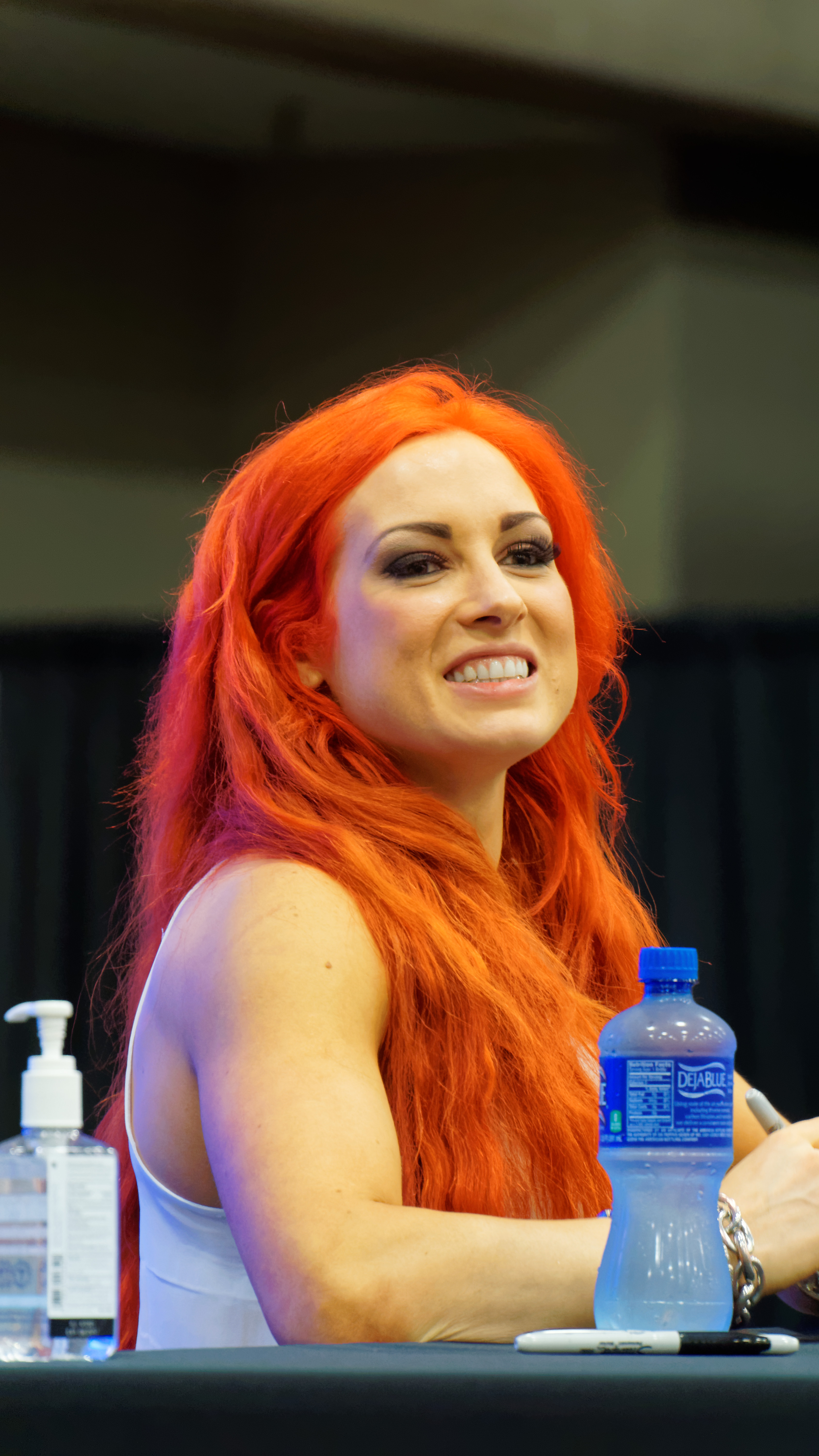 WrestleMania Axxess takes over the Kay Bailey Hutchison Convention Center in Dallas March 31-April 3. Featuring Superstar and Diva meet-and-greets, memorabilia displays and much more, WrestleMania Axxess is one event WWE fans of all ages will want to be part of. Don't miss out!